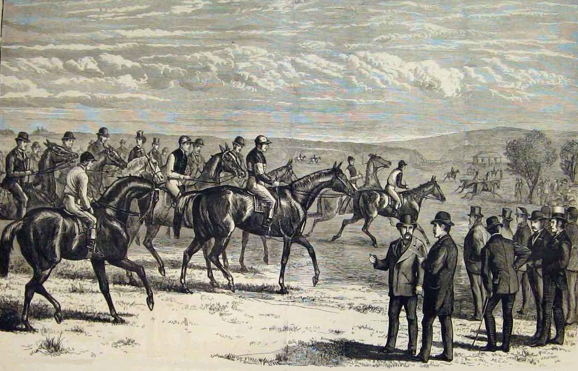 Wood engraving of the 1874 Two Thousand Guineas horse race dated May 1874